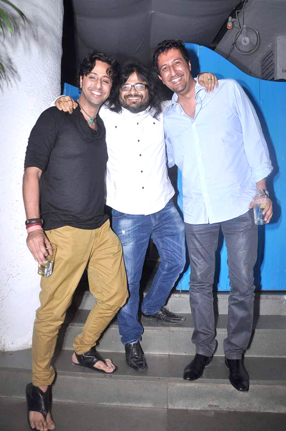 Salim Merchant, Pritam Chakraborty, Sulaiman Merchant at Deepika's Cocktail success bash